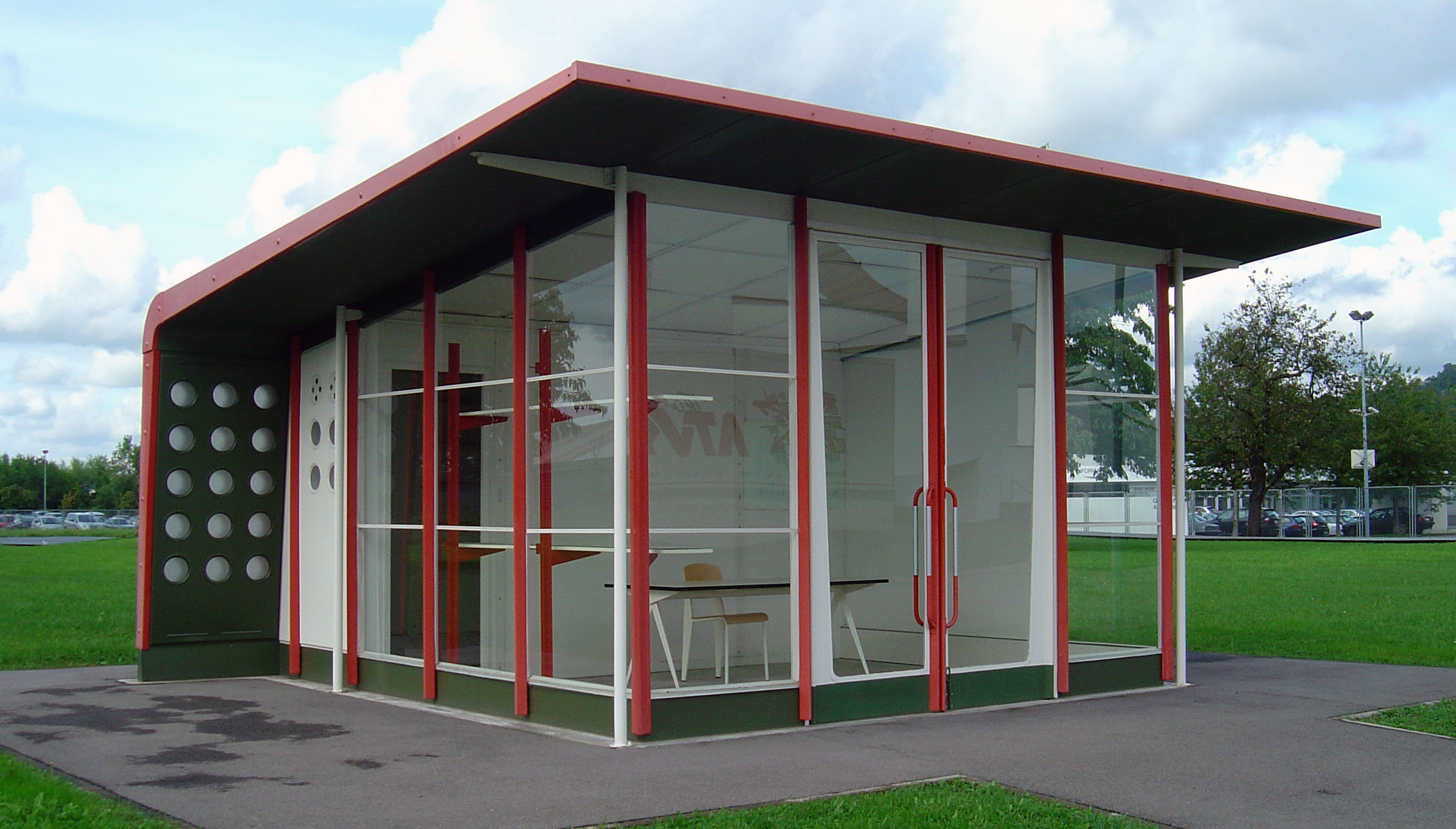 Prefabricated petrol station by Jean Prouvé, architectural exhibit, Vitra company premises, Weil am Rhein, Germany. The station contains a Prouvé "Standard chair" and a Prouvé table.